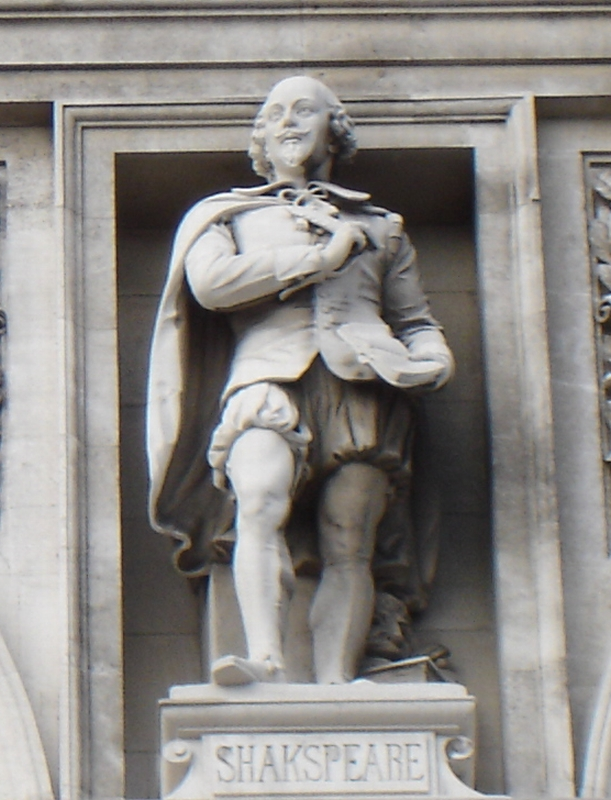 Statue Of William Shakspeare-Old City Of London School-Victoria Embankment-London